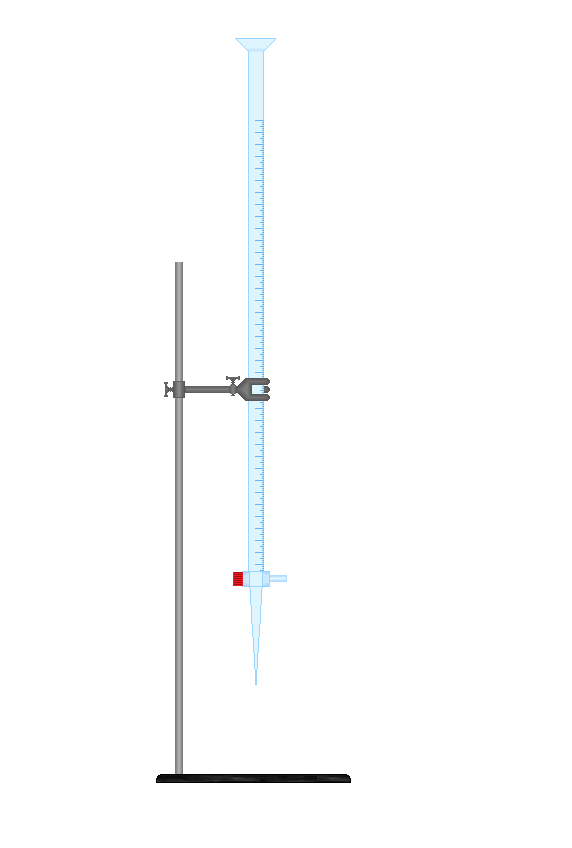 Buret for chemical purposes